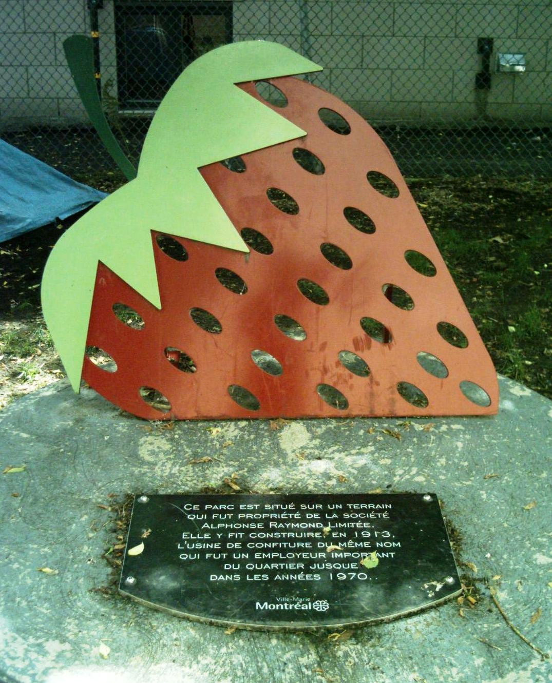 In the Parc de la Fabrique, a commemorative plaque in the shape of a large strawberry explains that the land where the park is located belonged to the socialite, Alphonse Raymond who from 1913 to the 1970s employed many workers to manufacture fruit jam.